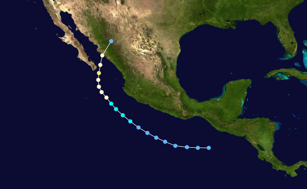 Hurricane Paine (1986) track. Uses the color scheme from the Saffir-Simpson Hurricane Scale.